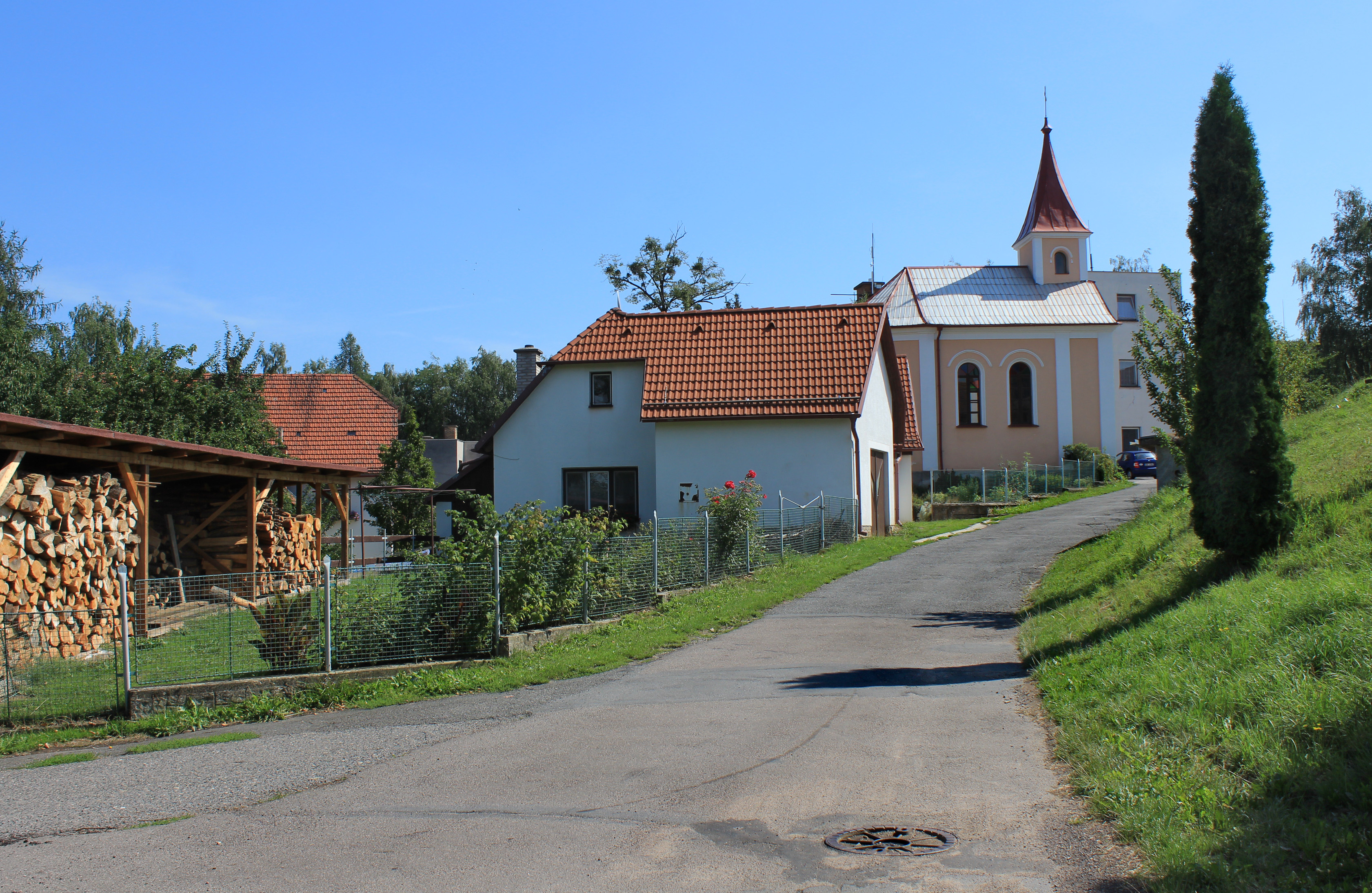 Municipal office in Němčice, Czech Republic.